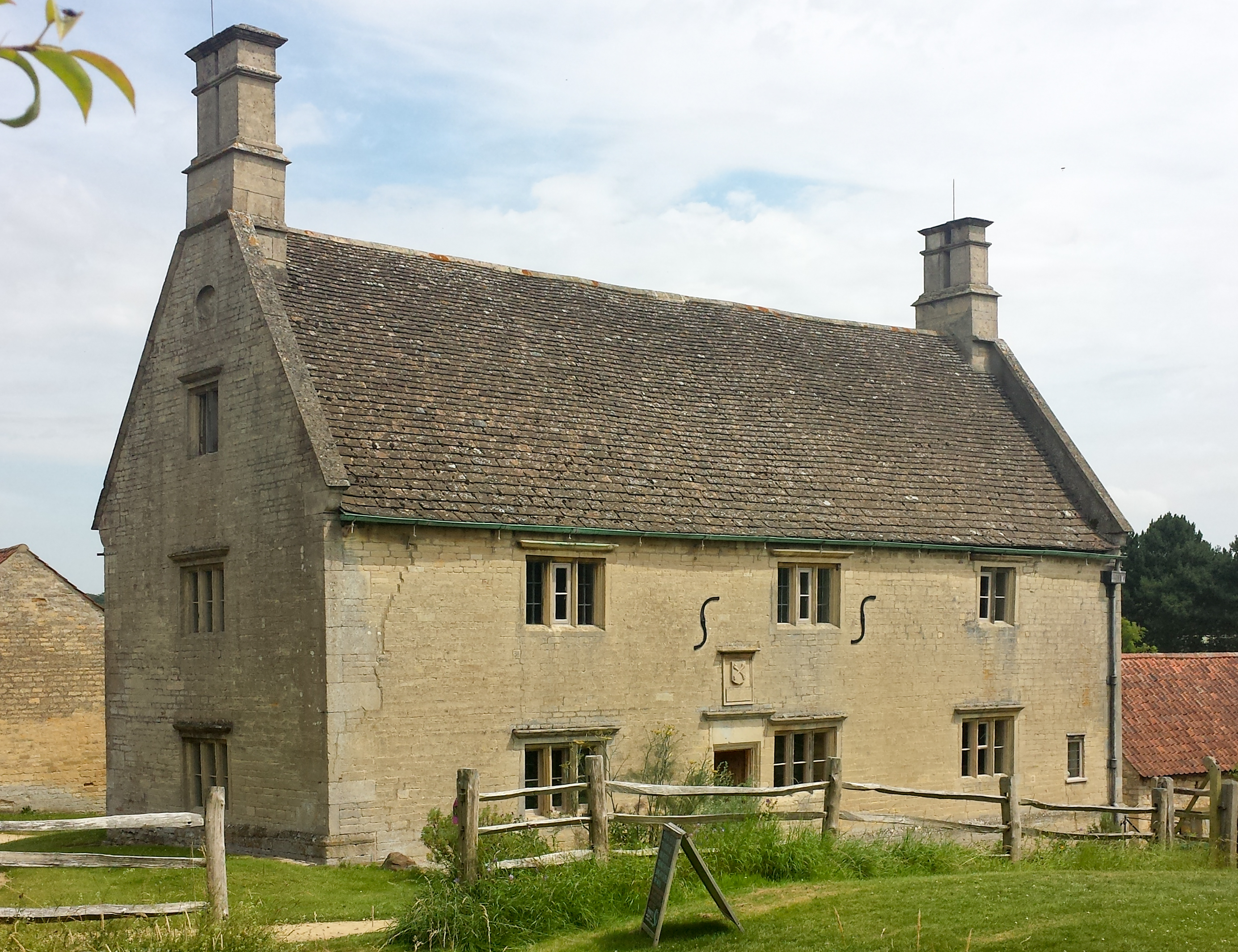 Woolsthorpe Manor, Woolsthorpe-by-Colsterworth, Lincolnshire, England. This house was the birthplace and the family home of Sir Isaac Newton.